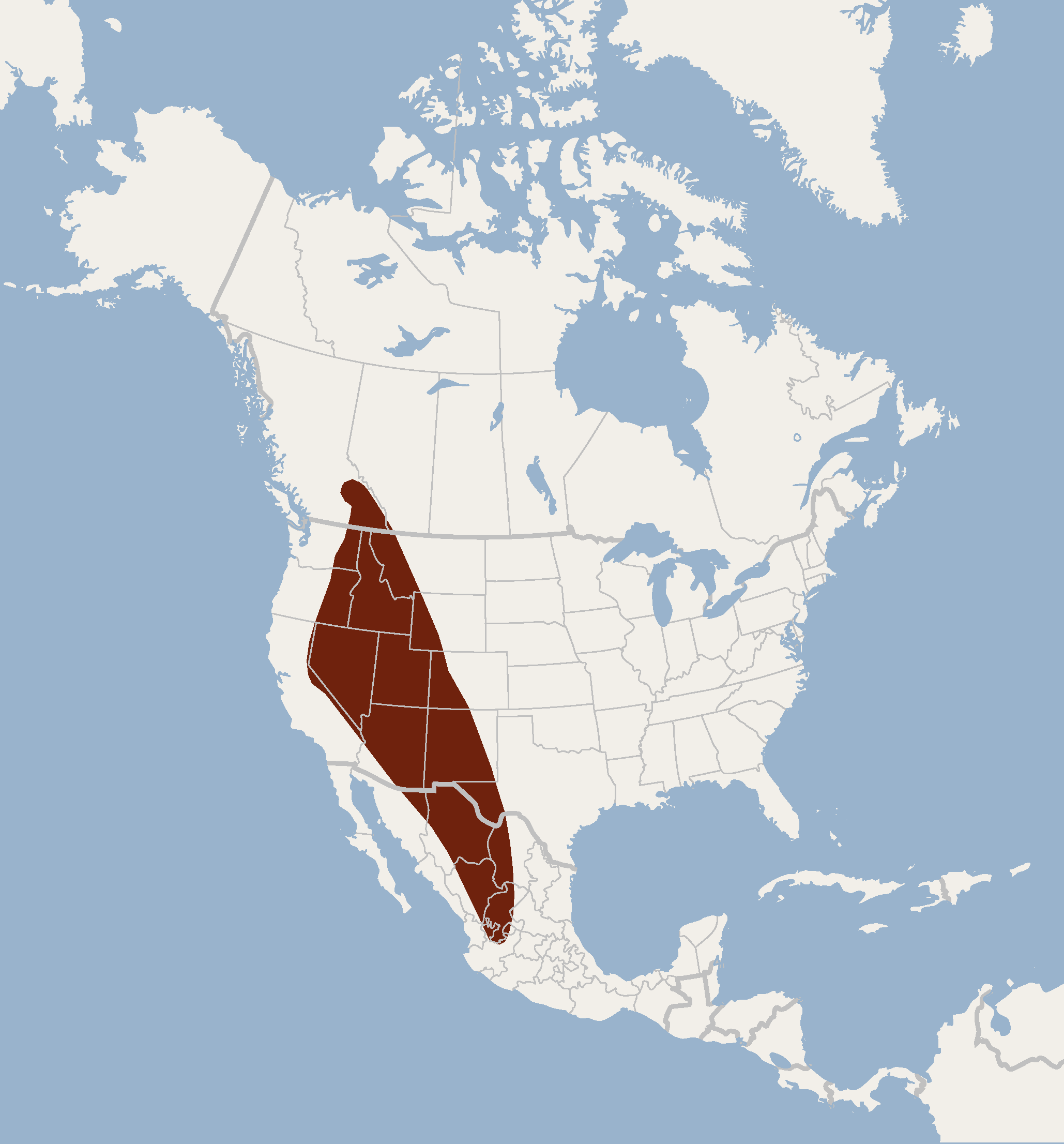 According to